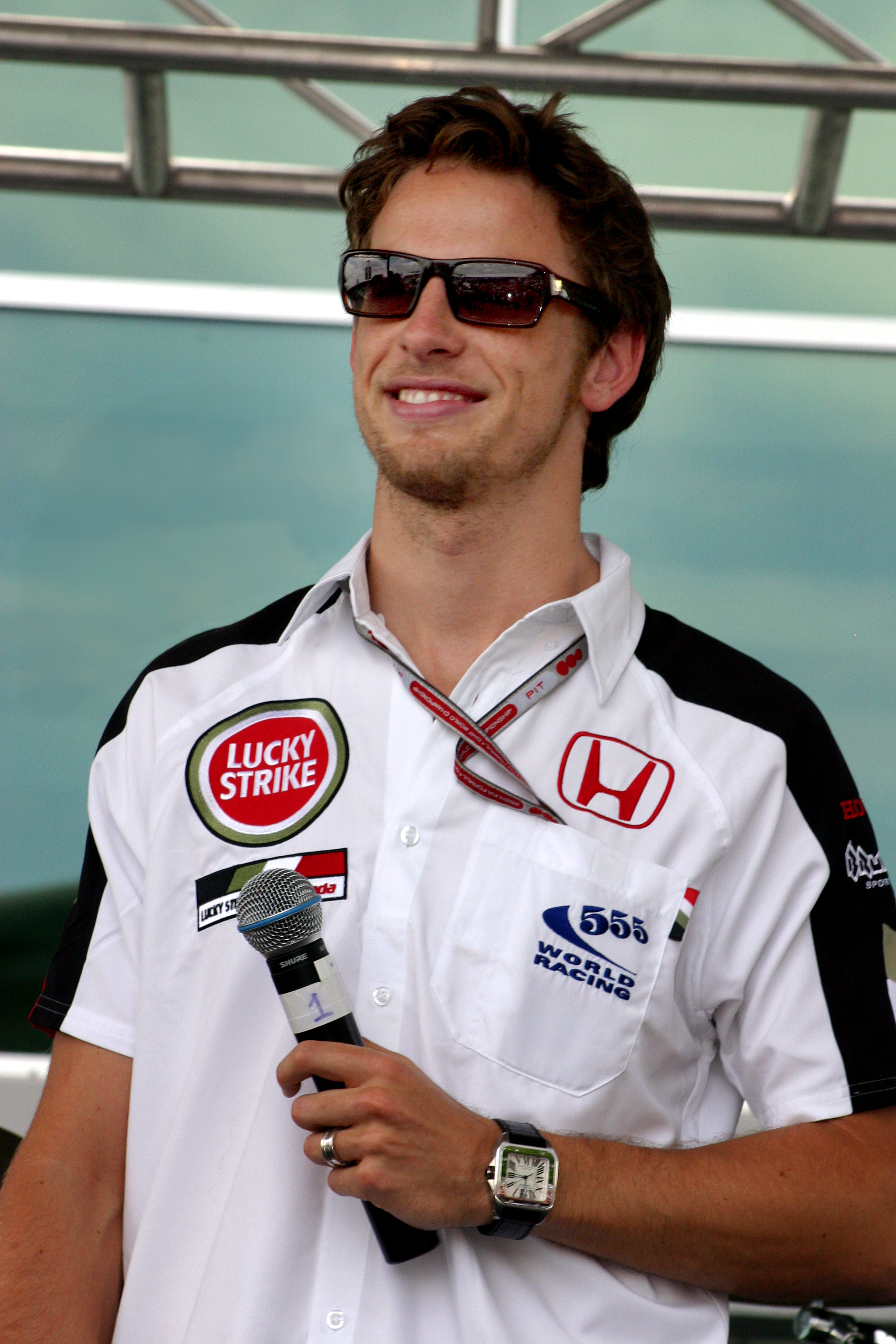 Jenson Button, Indianapolis, 2004